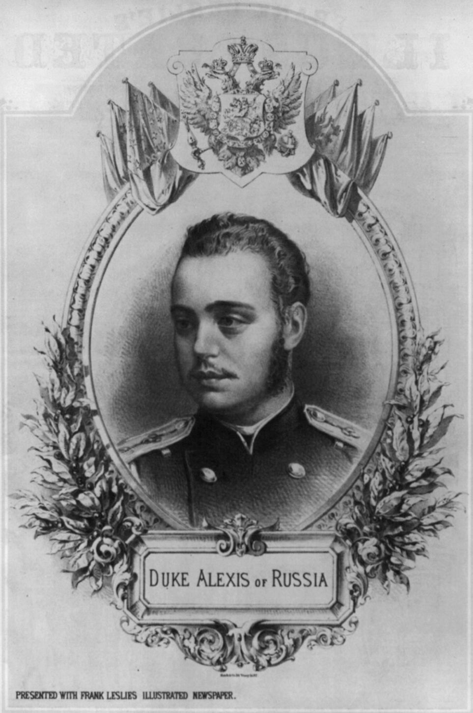 Grand Duke Alexei Alexandrovich of Russia, head and shoulders woodcut newspaper illustration